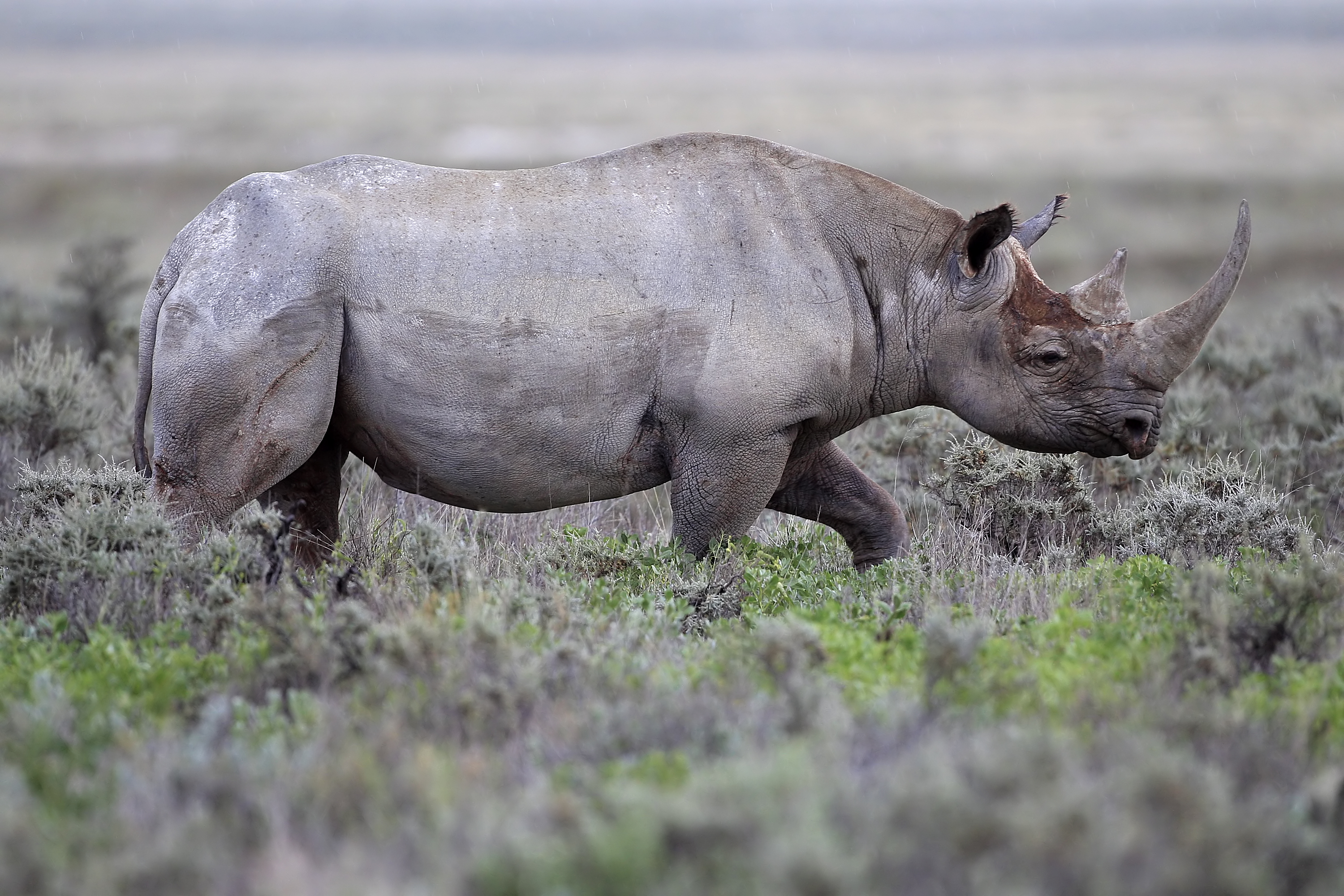 Black Rhinoceros at Gemsbokvlakte